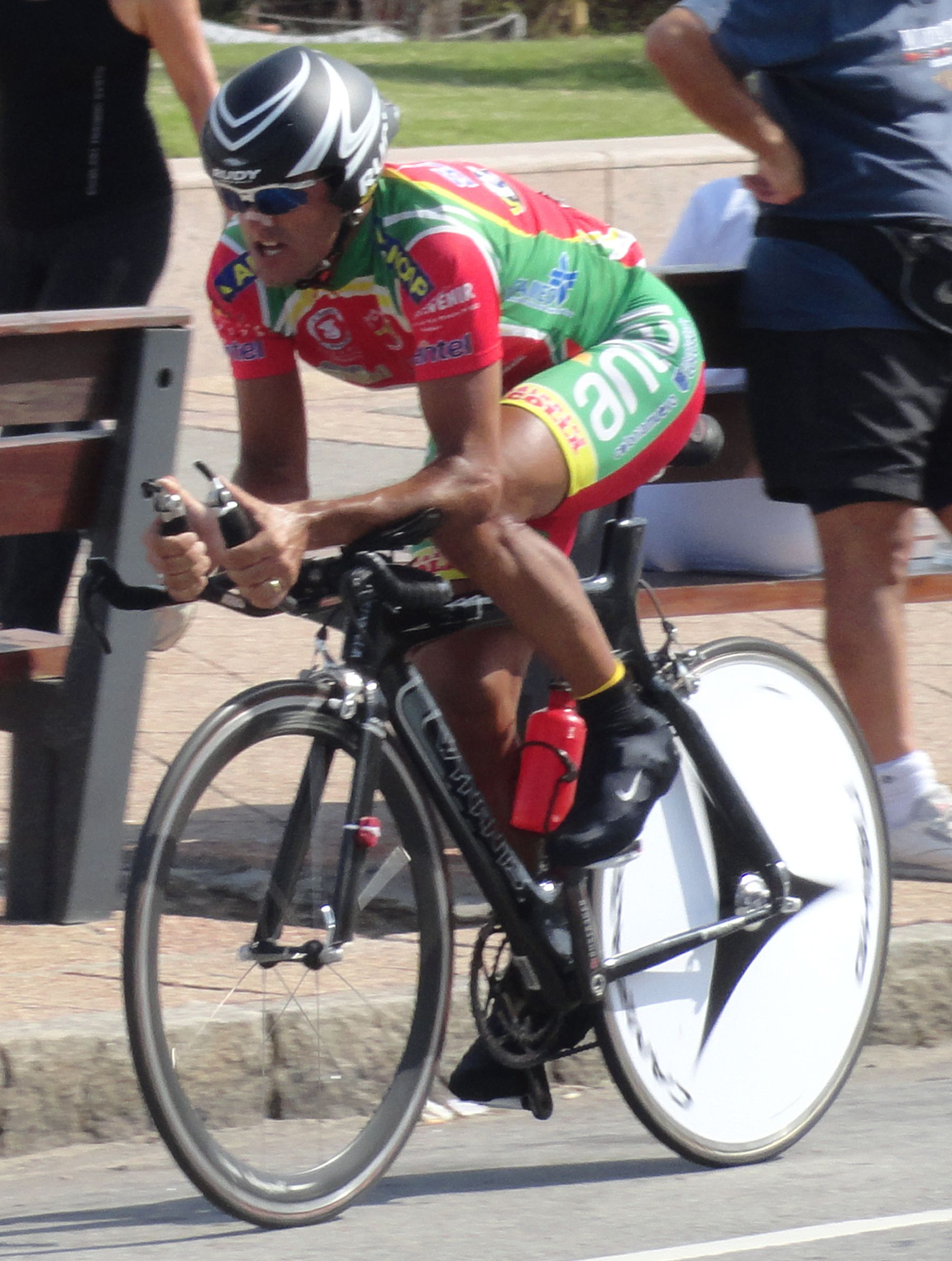 Milton Wynants competing at the Easter Sunday time trial of the 2013 Vuelta Ciclista del Uruguay cycling road race in Montevideo.